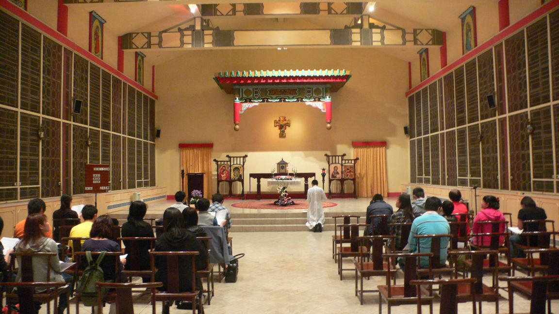 Preparation for Eucharistic Adoration in Holy Spirit Seminary, Hong Kong.